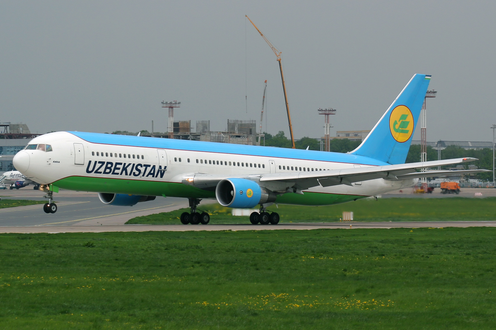 An Uzbekistan Airways Boeing 767-33P/ER at Domodedovo International Airport (DME/UUDD), Moscow, Russia